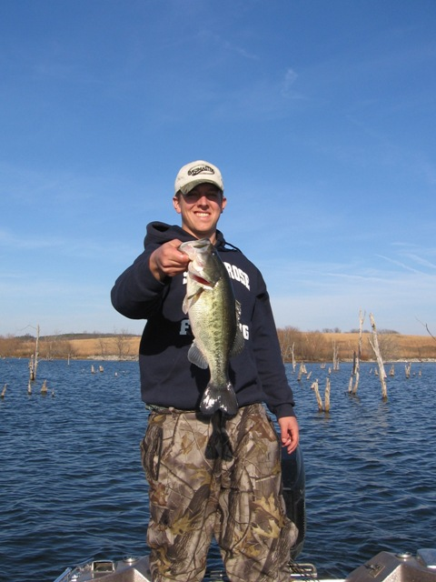 A man in Iowa holding a largemouth bass fish.